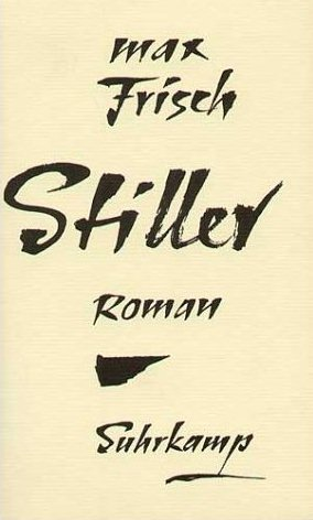 Book cover of Max Frisch "Stiller" 1954